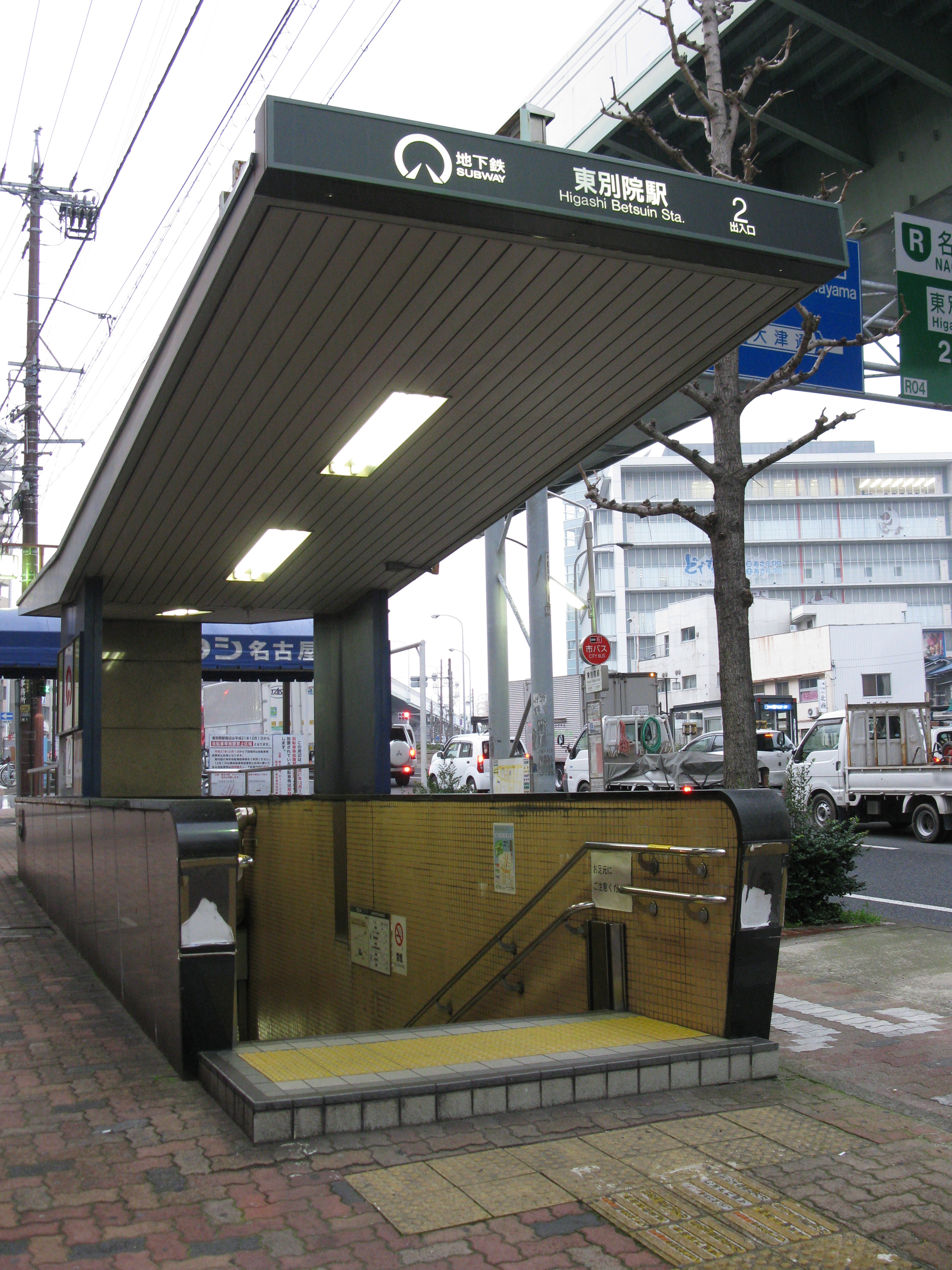 Higashi Betsuin Station no.2 entrance (Nagoya Municipal Subway Meijō Line)